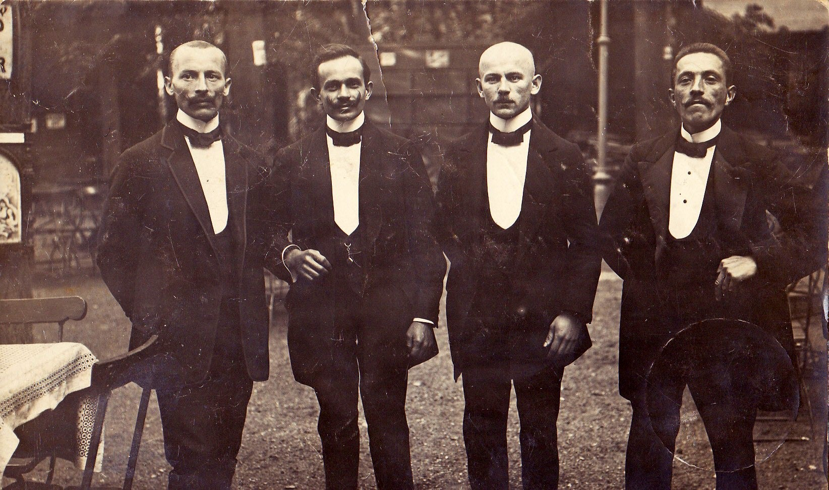 Waiters from Wrocław (Poland) in the photograph sent as a postcard in 1913. Publisher: Unknown.